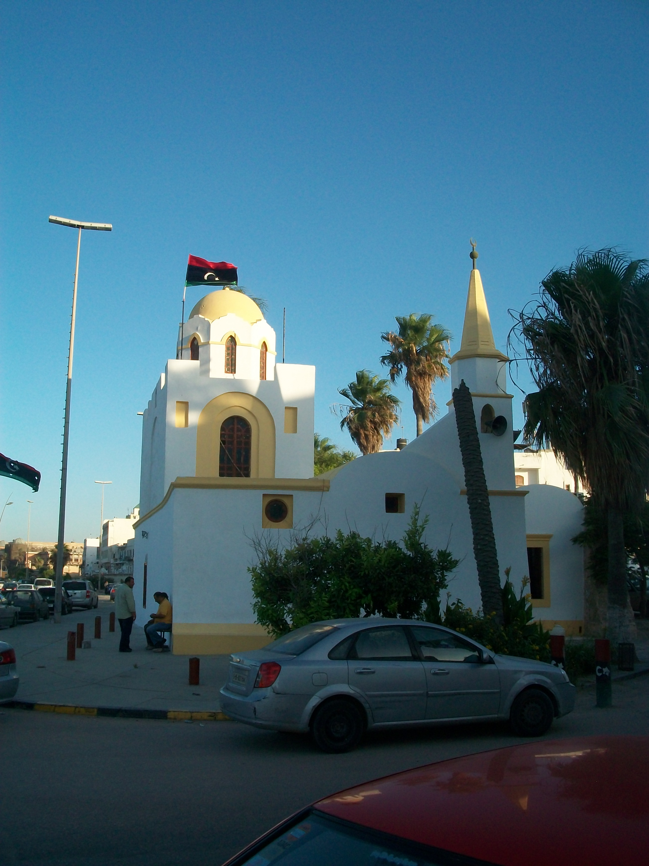 Sidi Abdul Wahab Mosque in the medina of Libya's capital Tripoli